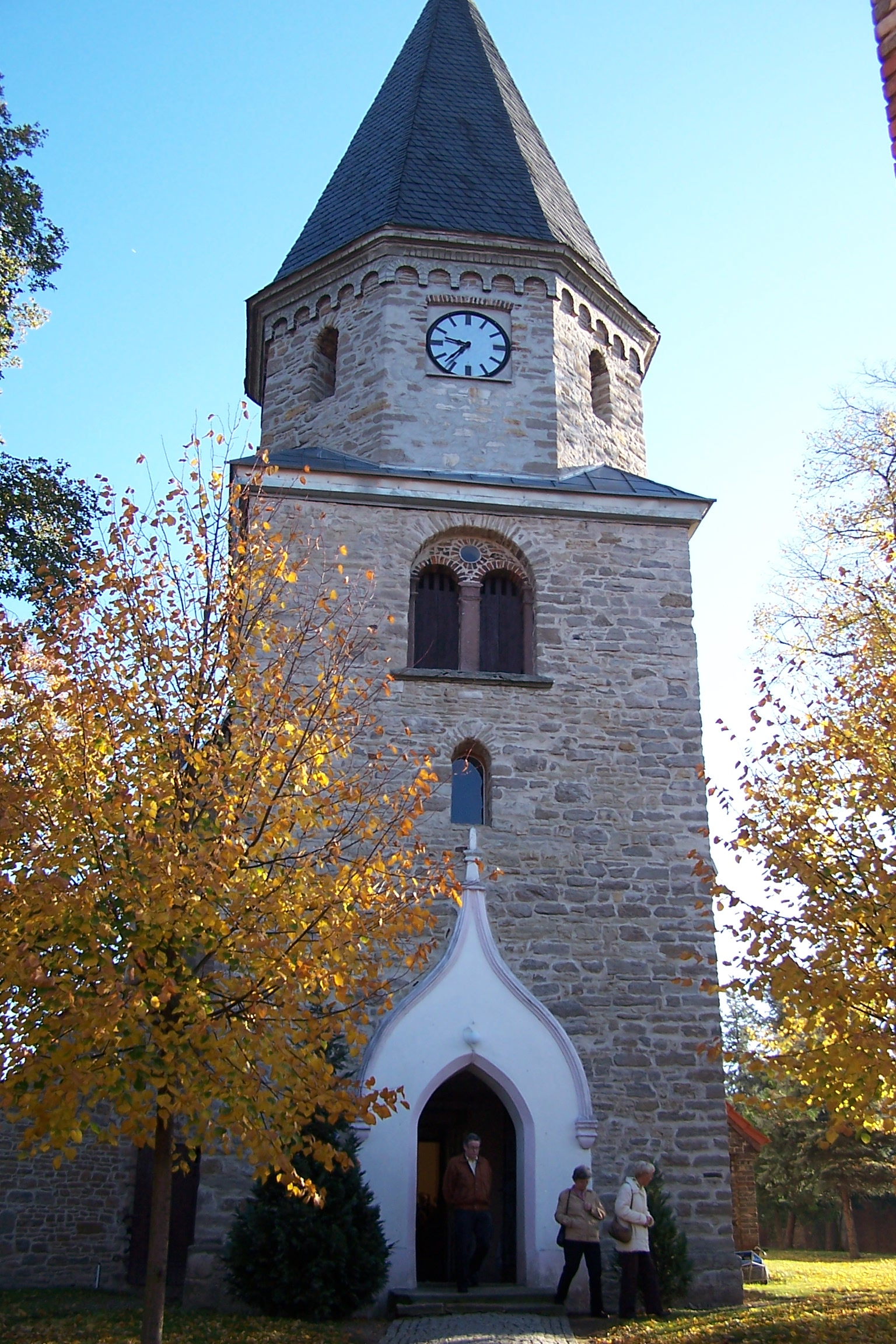 Grace Church of Klein Schierstedt, built 1590